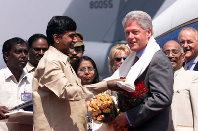 The then Chief Minister of Andhra Pradesh N. Chandrababu Naidu presents President Clinton with traditional items of greeting at Hyderabad Airport, India.